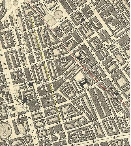 The Greenwoods' map of London was published in 1827, from a survey carried out in the preceding two years.